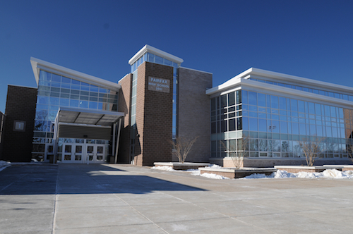 Fairfax High School in Fairfax, Virginia